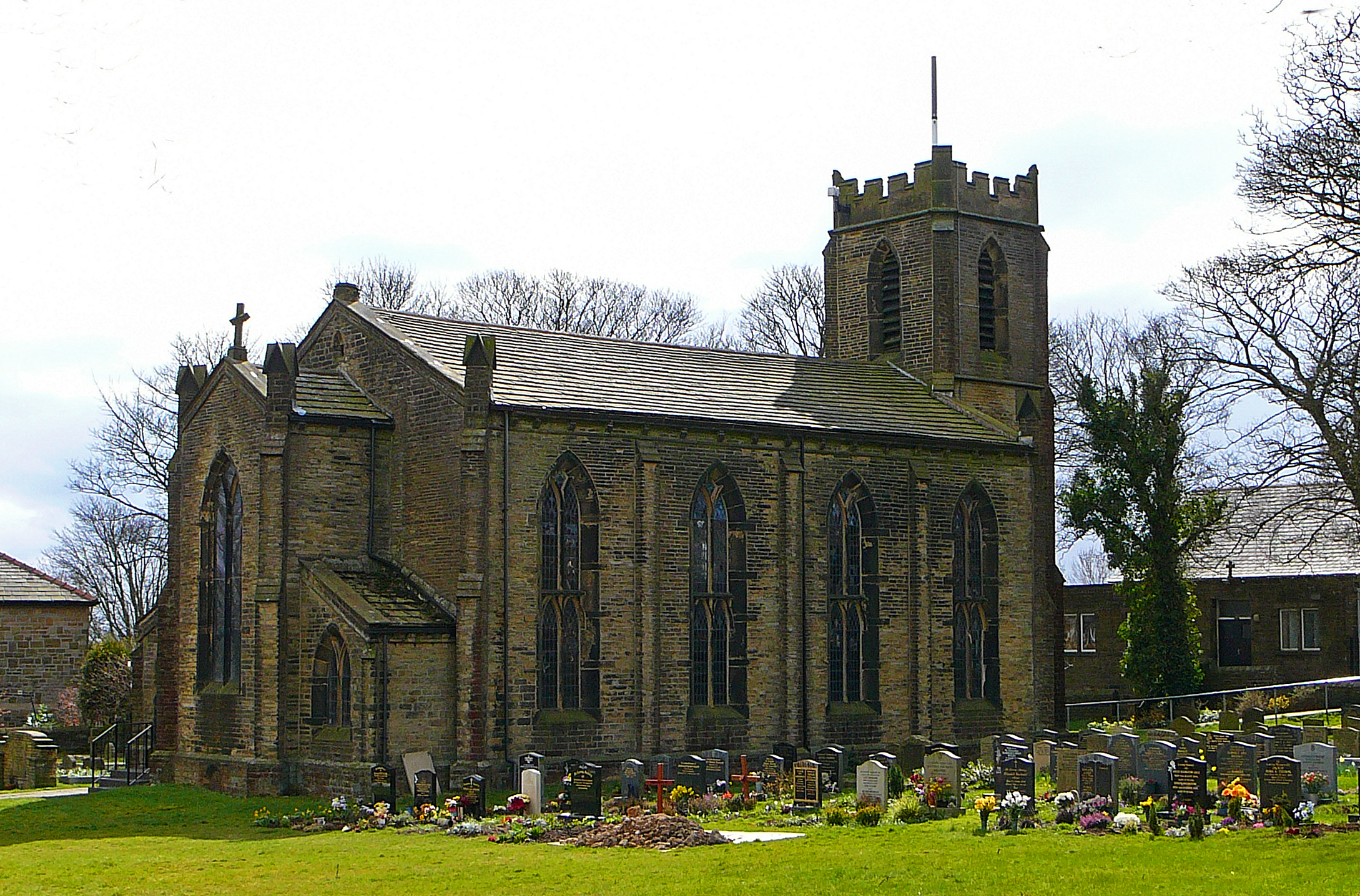 near Halifax